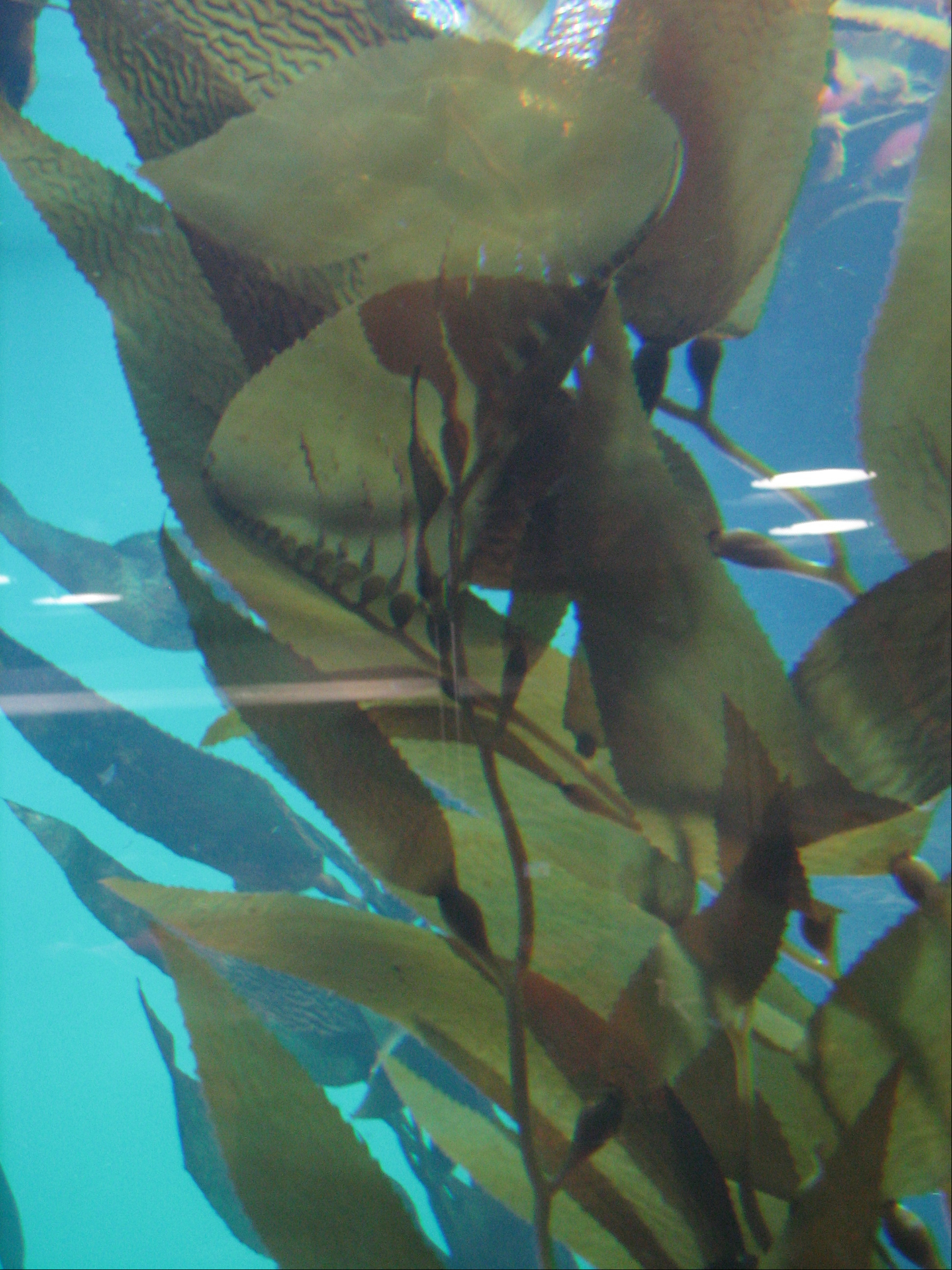 Giant kelp (Macrocystis pyrifera) in the Steinhart Aquarium at the California Academy of Sciences, San Francisco, California